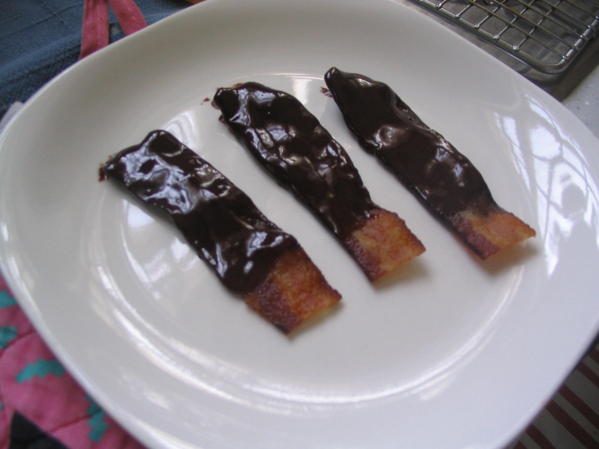 Applewood-smoked bacon covered in ganache